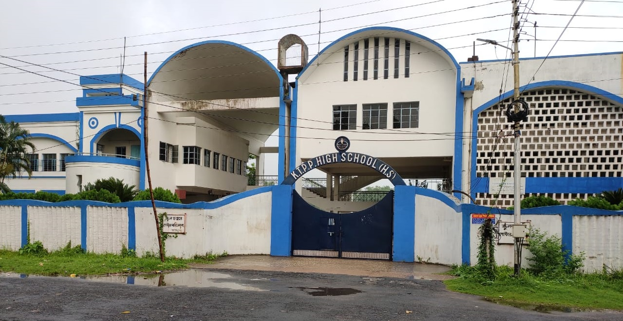 school